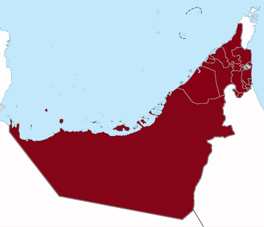 Emirates where sharia applies in personal status issues (such as marriage, divorce, inheritance, and child custody).Dubai, Ras al-Khaimah [1] Criminal law in UAE is governed by Islamic Courts alongside Secular courts. Also, Personal Status Law, and Family Law, are Sharia. ↑ The UAE Court System. Consulate General of the United s Dubai, UAE. Archived from the original on 22 lokakuuta 2015. Emirates where sharia applies in personal status issues (such as marriage, divorce, inheritance, and child custody), but otherwise have a secular legal system. Emirates where sharia applies in full, covering personal status issues as well as criminal proceedings.